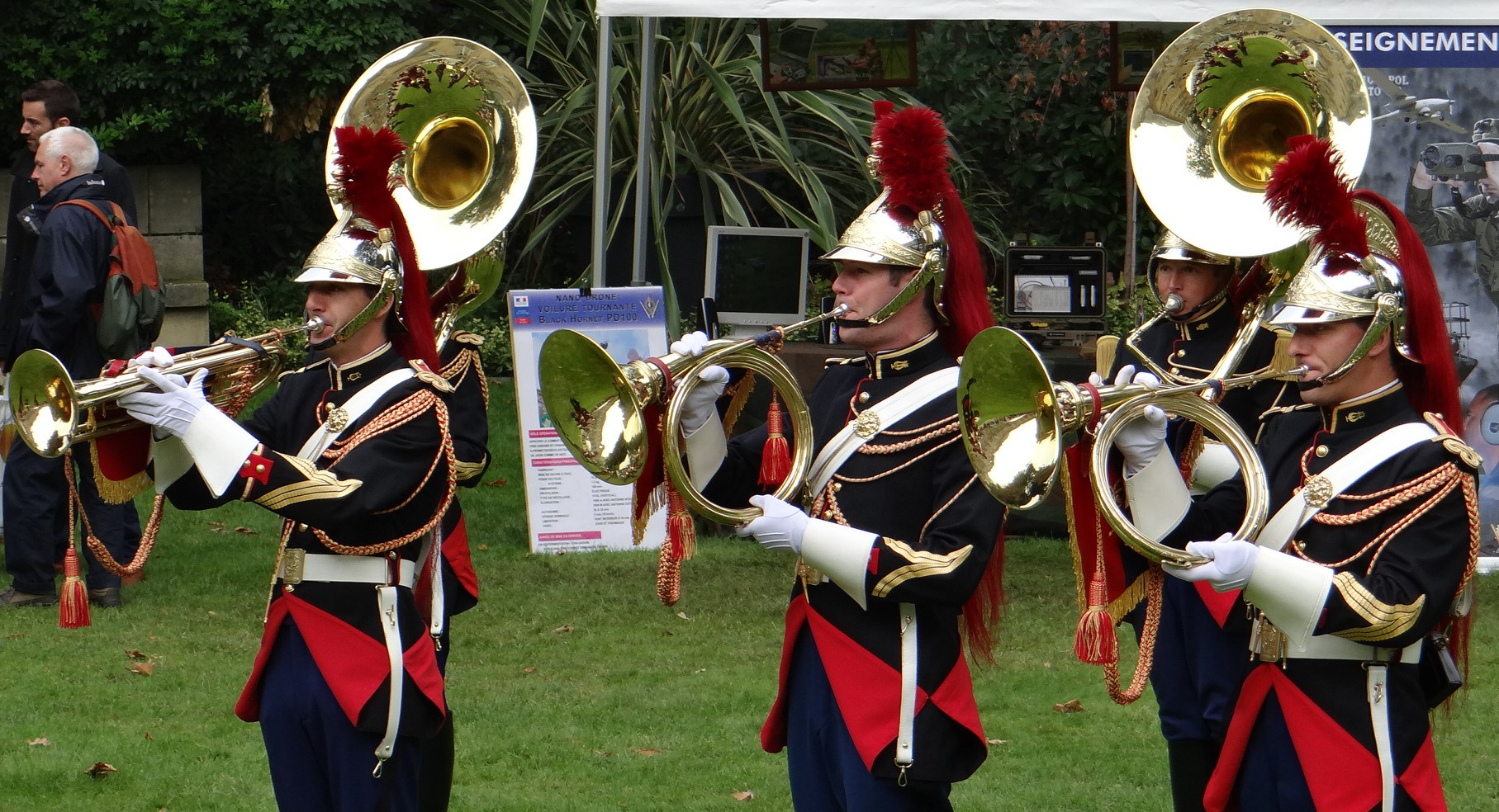 Orchestra of the Republican Guard in the gardens of the hotel of Brienne (Ministry of Armies) during the Heritage Days 2016